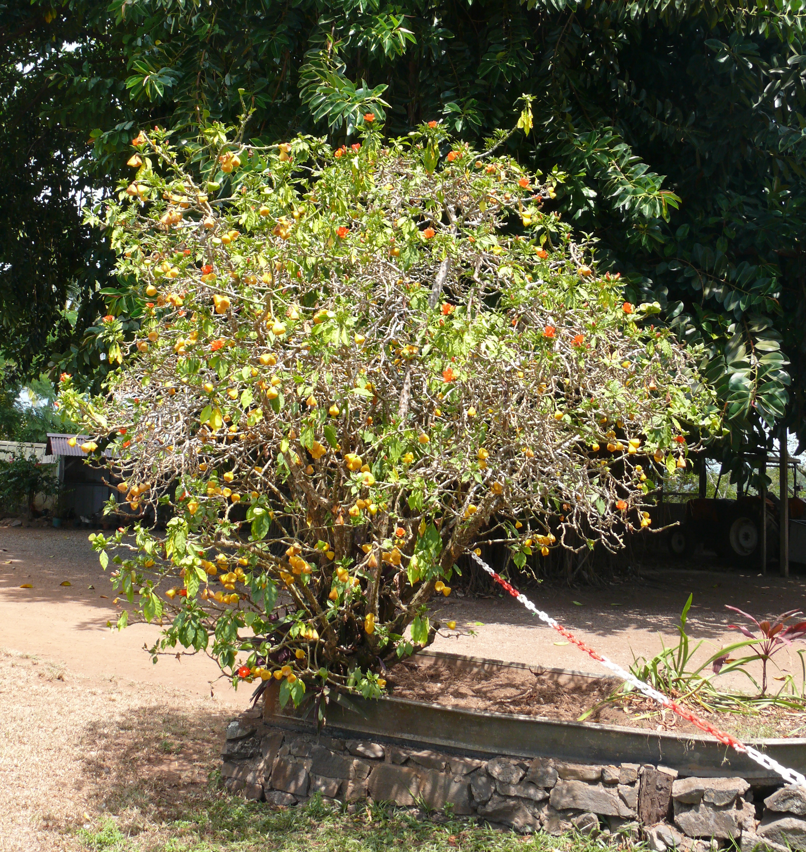 Flowering and fruit-bearing Pereskia bleo on Royale Island, French Guiana.